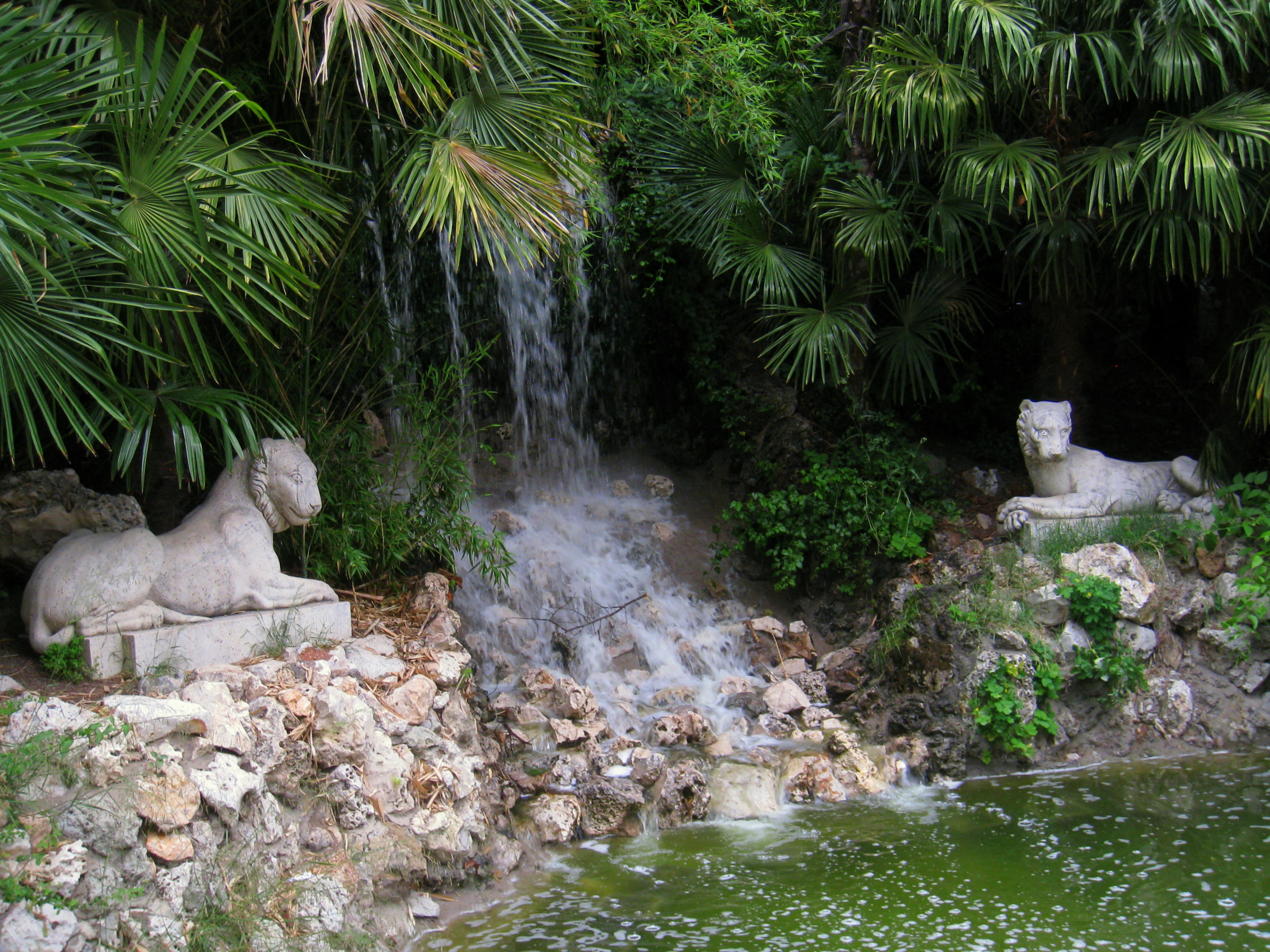 Sculpture and waterfall at the Montaña artificial, Parque del Buen Retiro, Madrid, Spain.